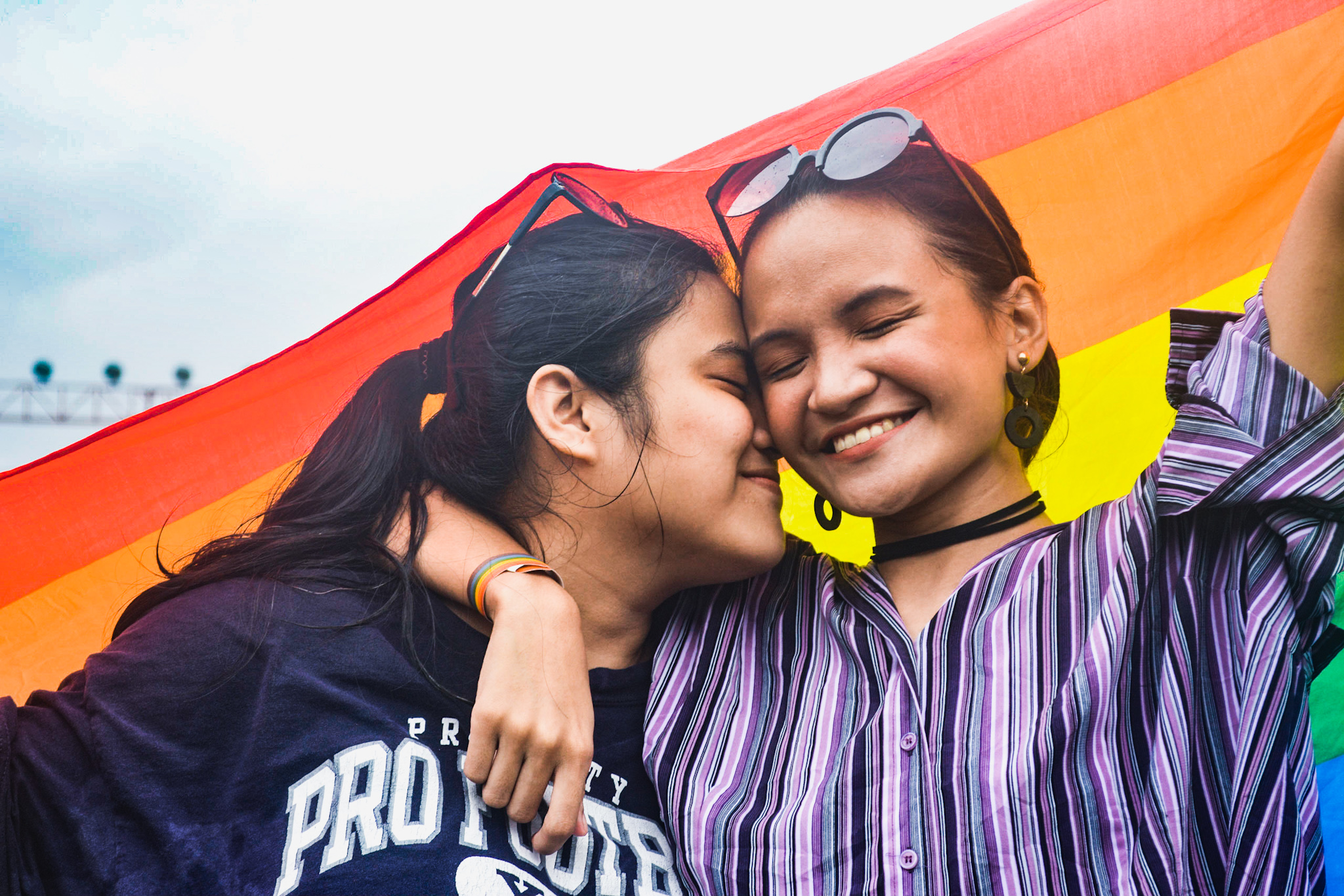 Location: PhilippinesEvent type: 2019 Metro Manila Pride MarchDate or year: 2019